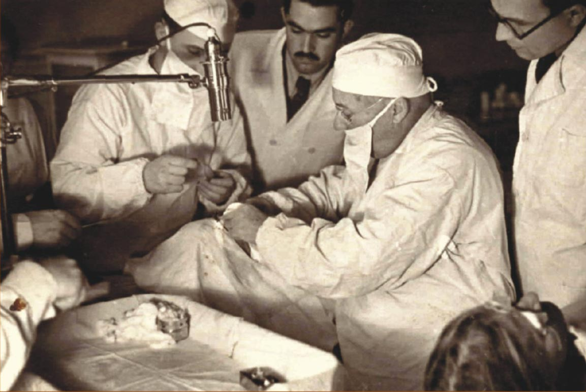 Professor Konstantin Pashev in Sofia 1939